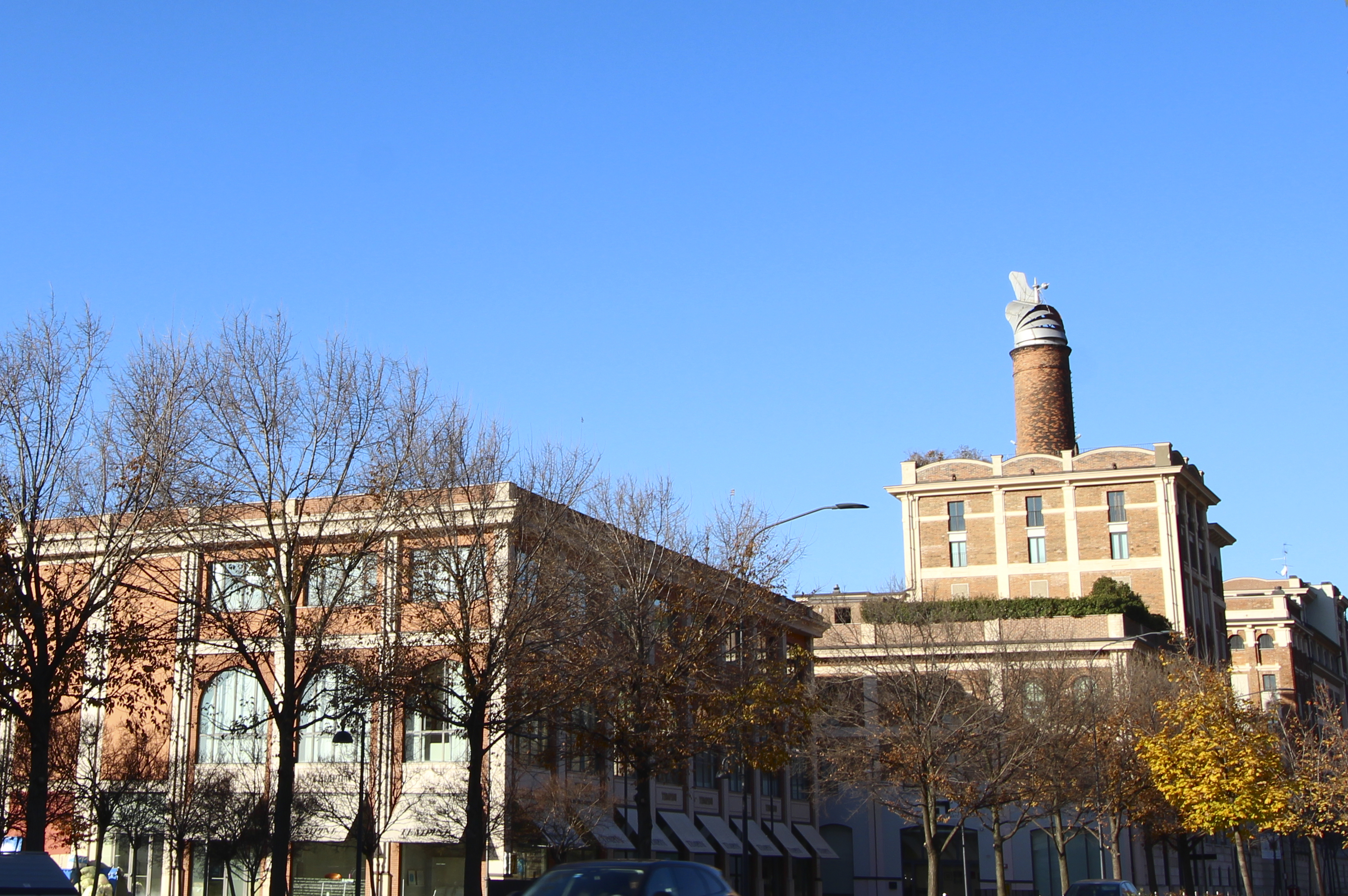 Borgo Wührer, Brescia